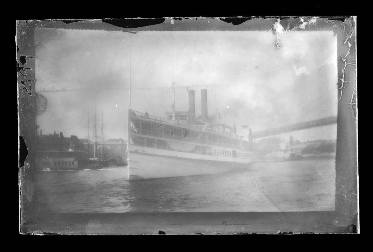 George Bradford Brainerd (American, 1845-1887). Big Steamboat Fulton Ferry, Brooklyn, New York, ca. 1885. Dry negative plate. Prints, Drawings and Photographs. Brooklyn Museum/Brooklyn Public Library, Brooklyn Collection, 1996.164.2-2199. (1996.164.2-2199_glass_IMLS_SL2.jpg) Thank you, BillRhodesPhoto! This image has been geotagged by BillRhodesPhoto so Brooklyn could be part of the Historypin launch on July 11, 2011. Want to help? See if you can place any of these images on a map! More about #mapBK